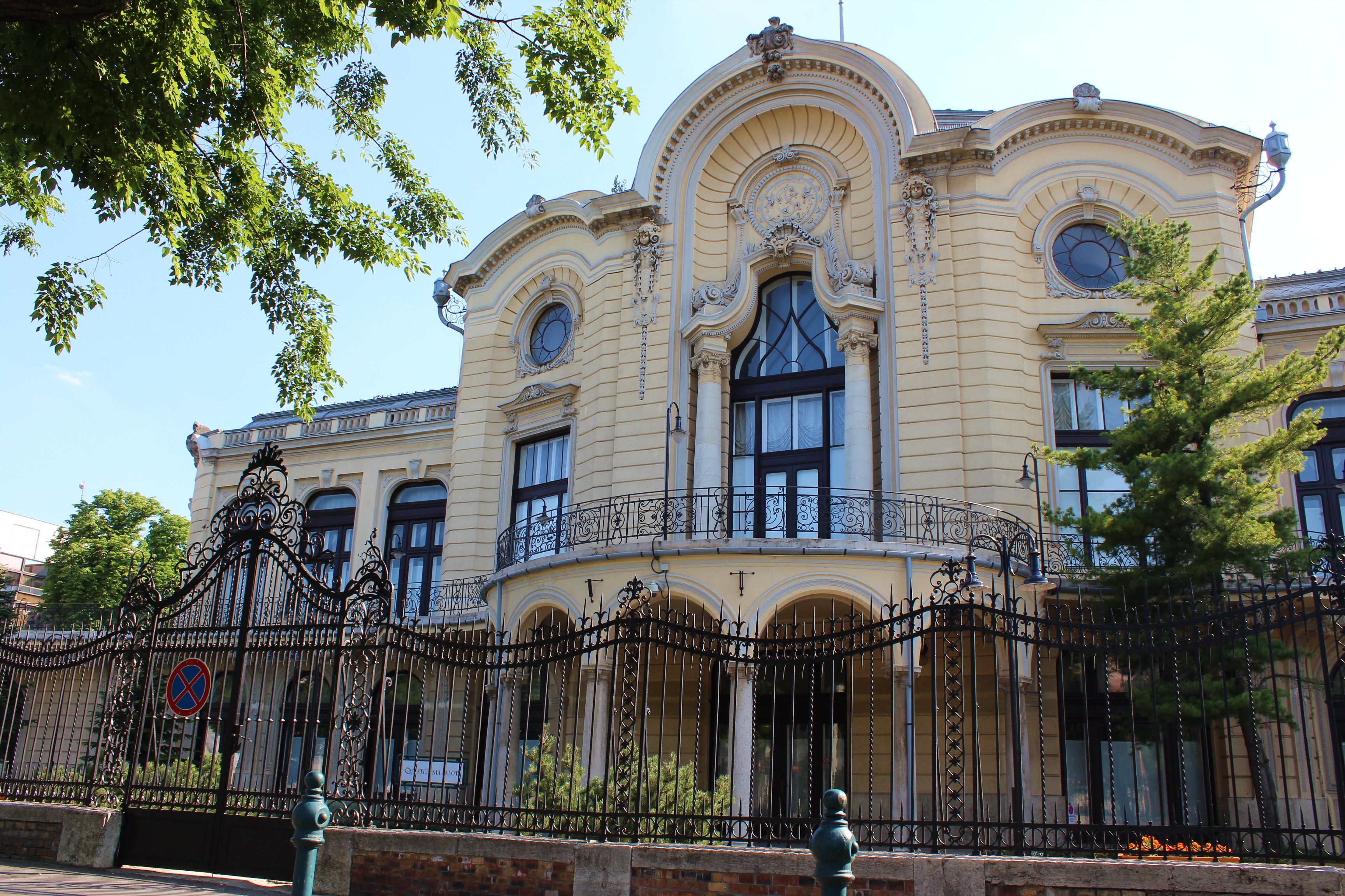 Sefánia Palace in Zugló, Budapest